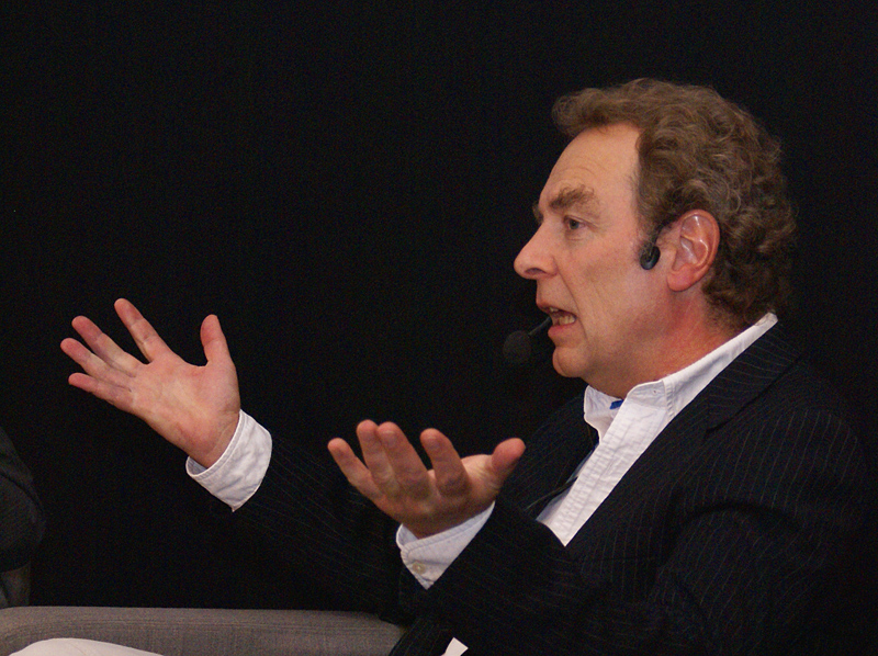 Jørgen Steen Nielsen, a Danish writer and journalist.